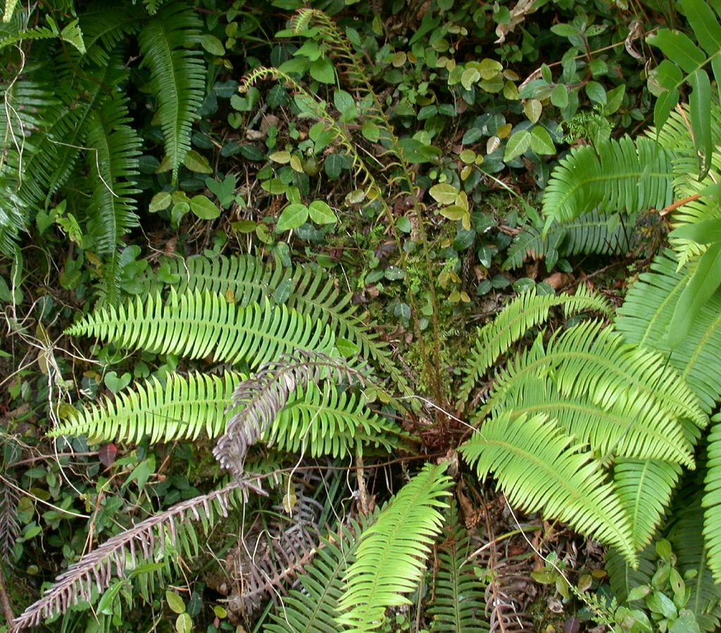 Blechnum nipponicum (Blechnaceae), Japanese name: Sisigasira Date: 2007-05-31. Susami town, Wakayama Pref., Japan Author;Keisotyo